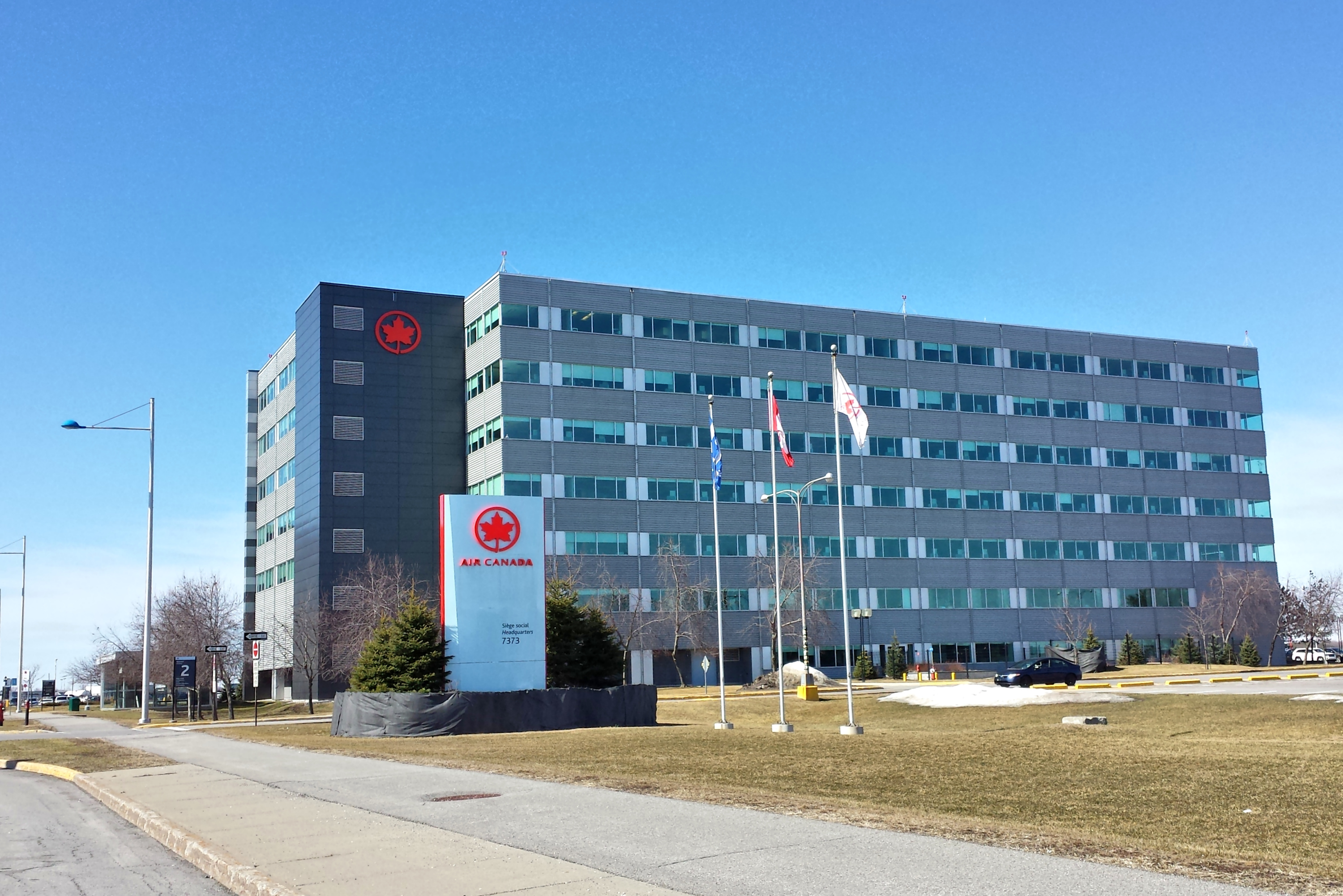 Air Canada Centre, Air Canada headquarters, Montreal, Quebec, Canada